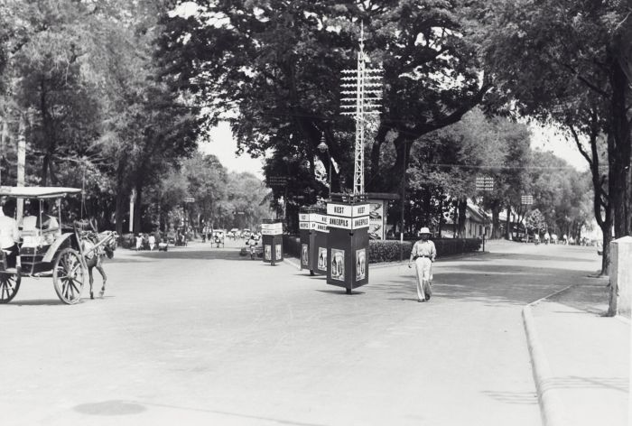 Advertising to drink Anker Pils beer at the beginning of the streets Engelsche Kerkweg and Parapattan, Batavia